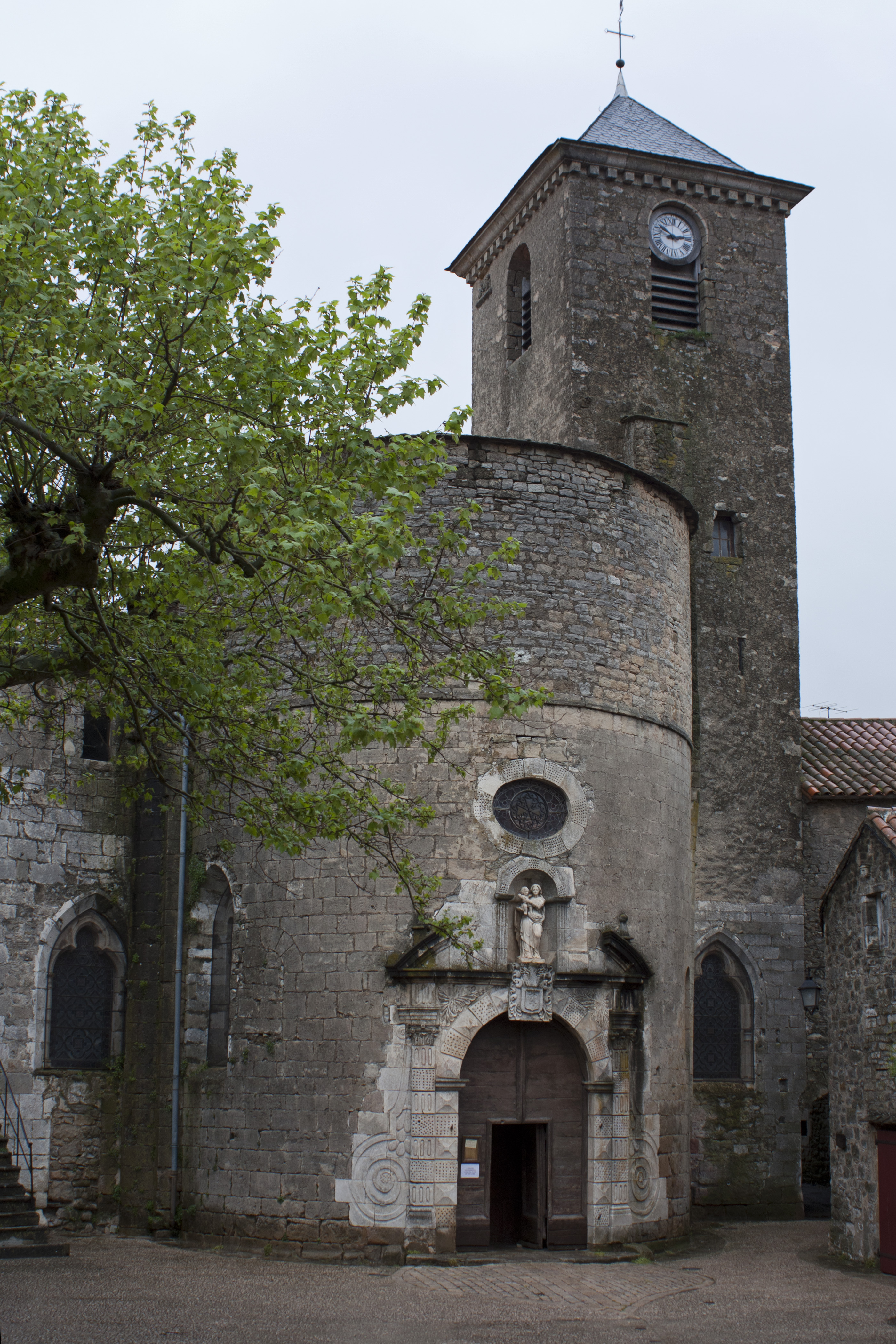 Saint Eulalia church. The upper part of the bell tower is a recent construction (19th c.).